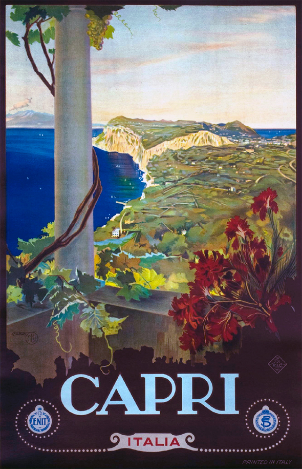 Advertising poster for Capri by Mario Borgoni